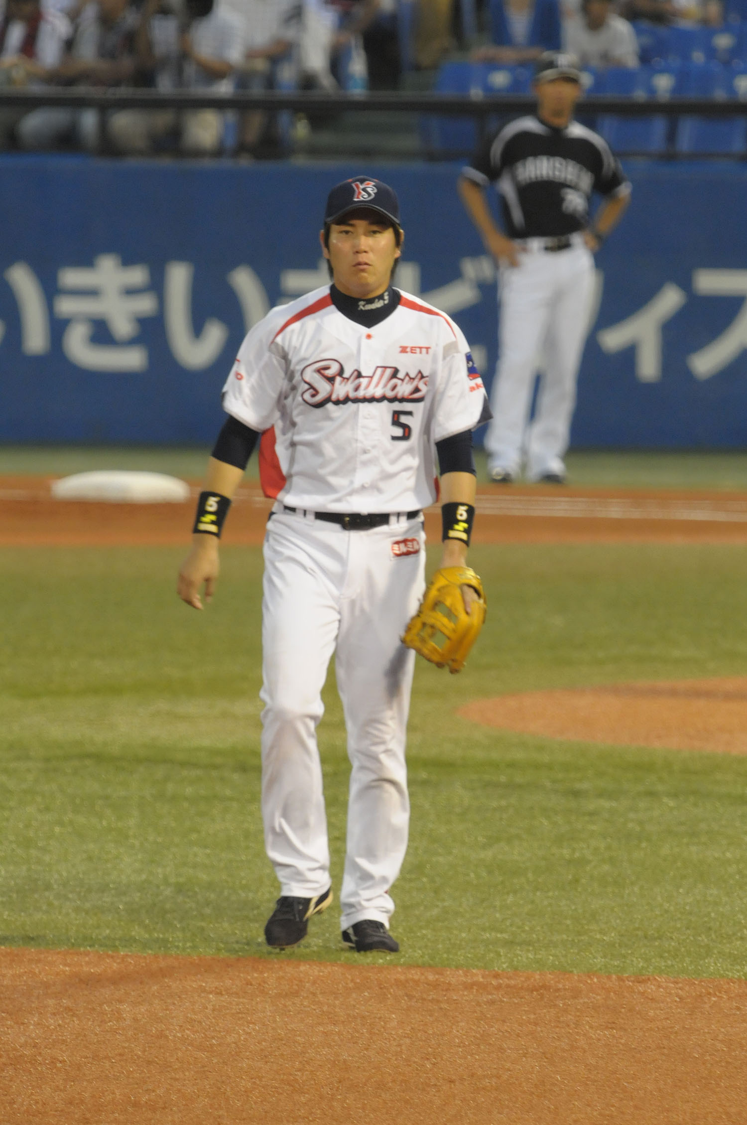 Shingo Kawabata, infielder of the Tokyo Yakult Swallows, at Meiji Jingu Stadium.